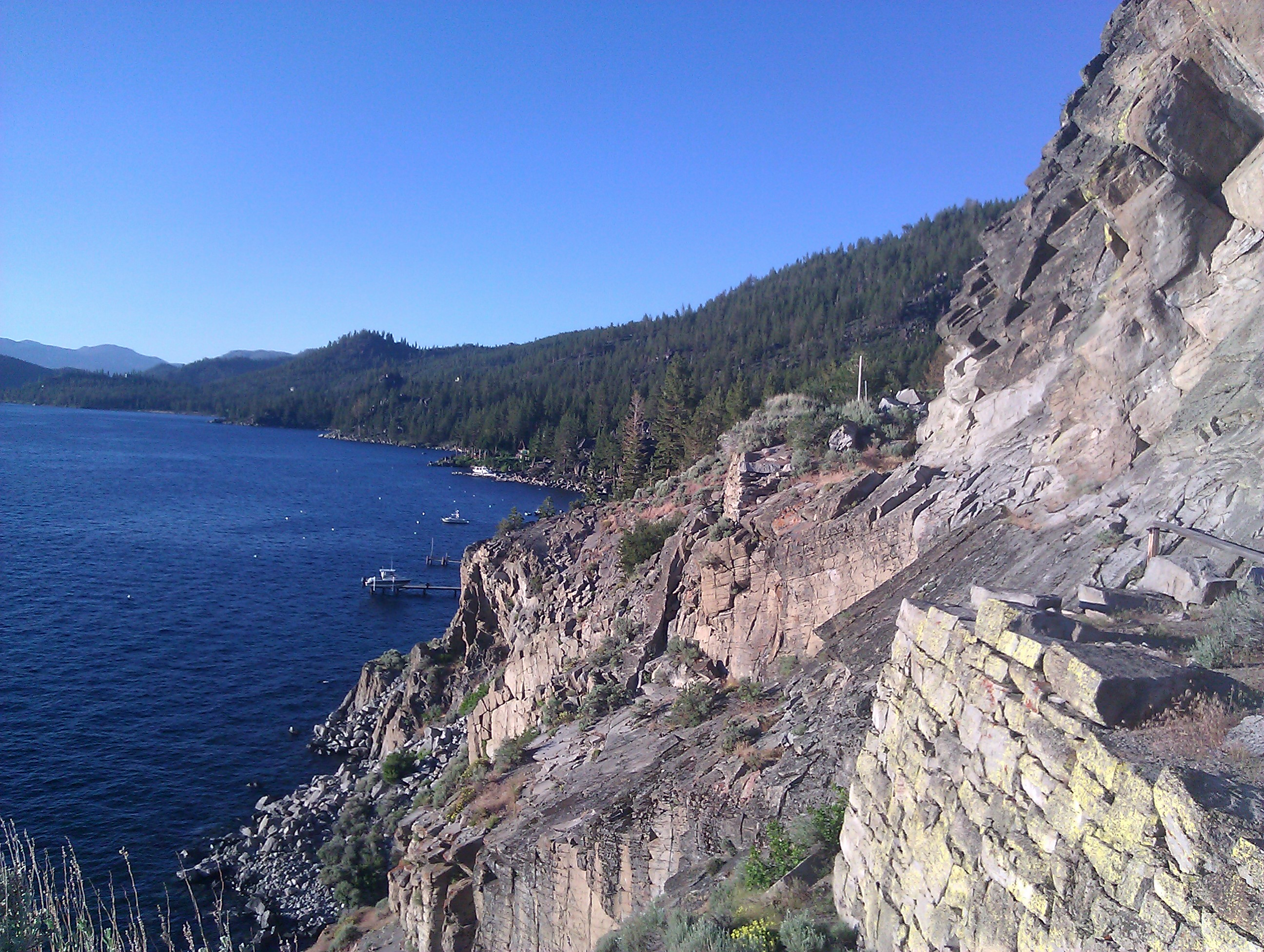 The remnants of the hanging bridge that was replaced by the Cave Rock Tunnel which carries modern U.S. Route 50 along the eastern shore of Lake Tahoe